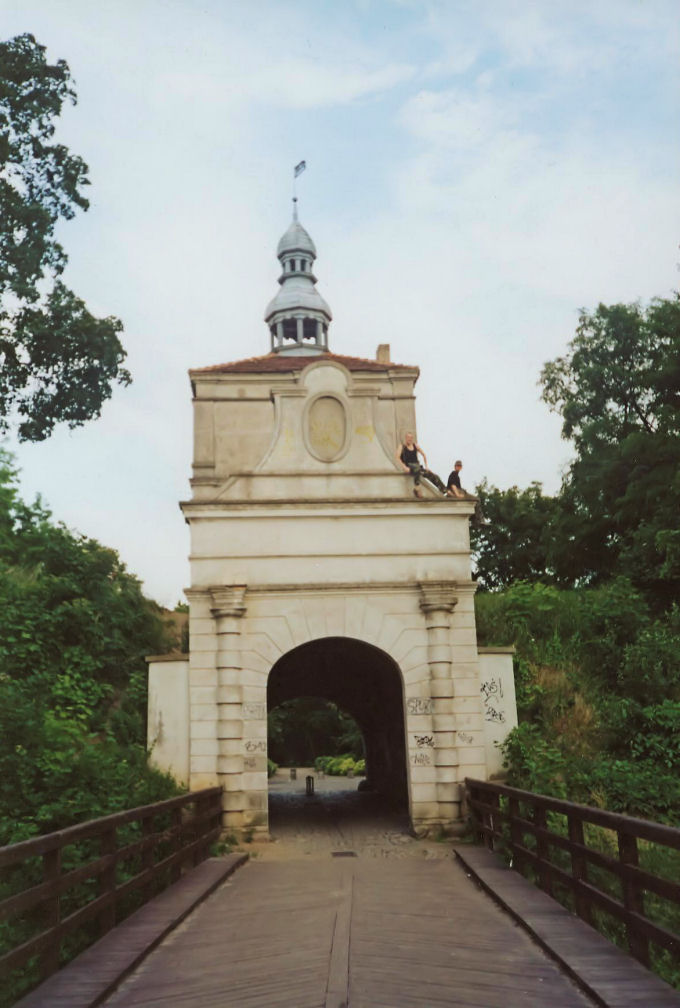 Zbąszyń, Poland